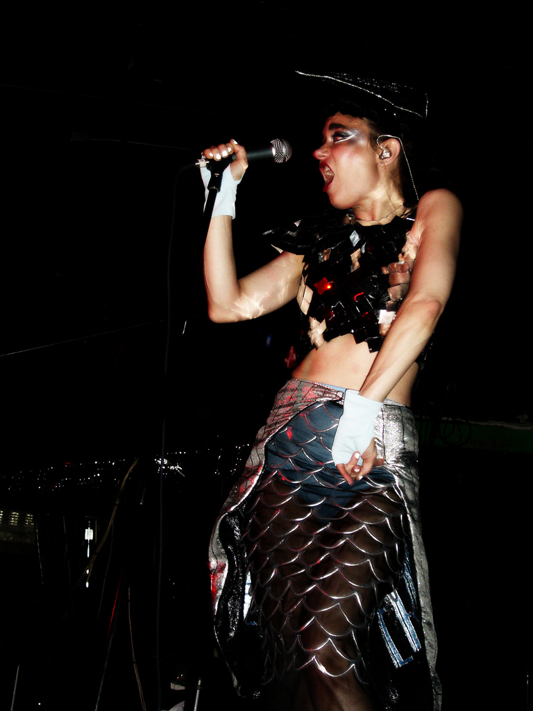 Kristeen Young at Dantes Portland Oregon 17 May 2009